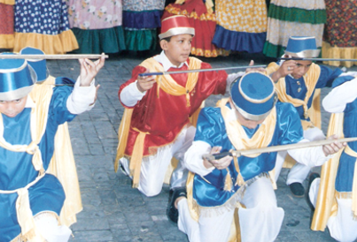 Calendas de San Fernando